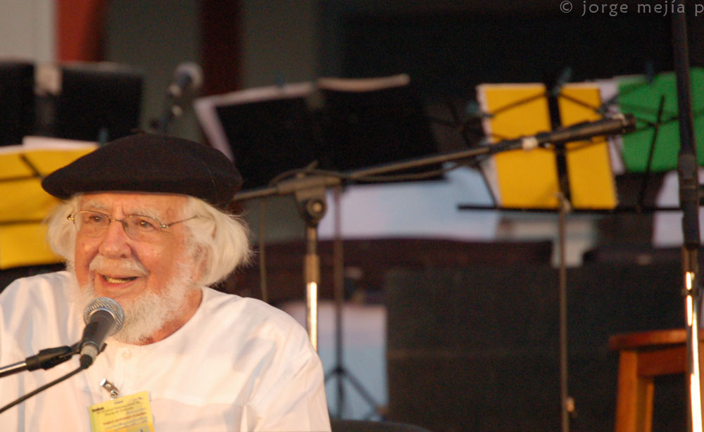 Ernesto Cardenal at the 3rd international poerty festival in Granada, Nicaragua